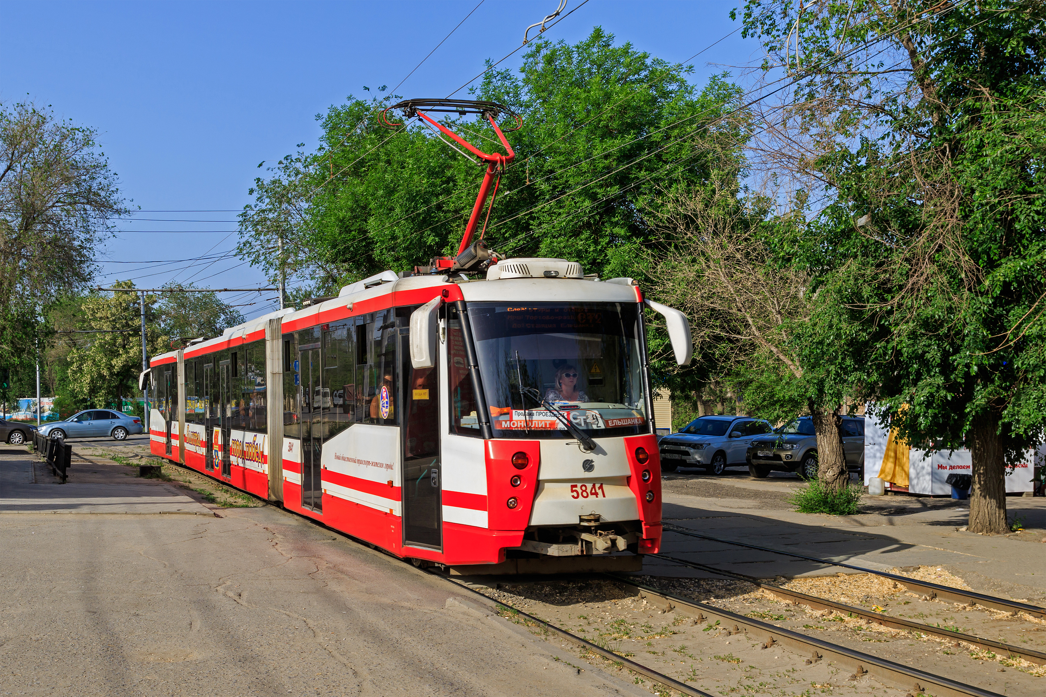 Metrotram train at Mamaev Kurgan station in Volgograd, Russia